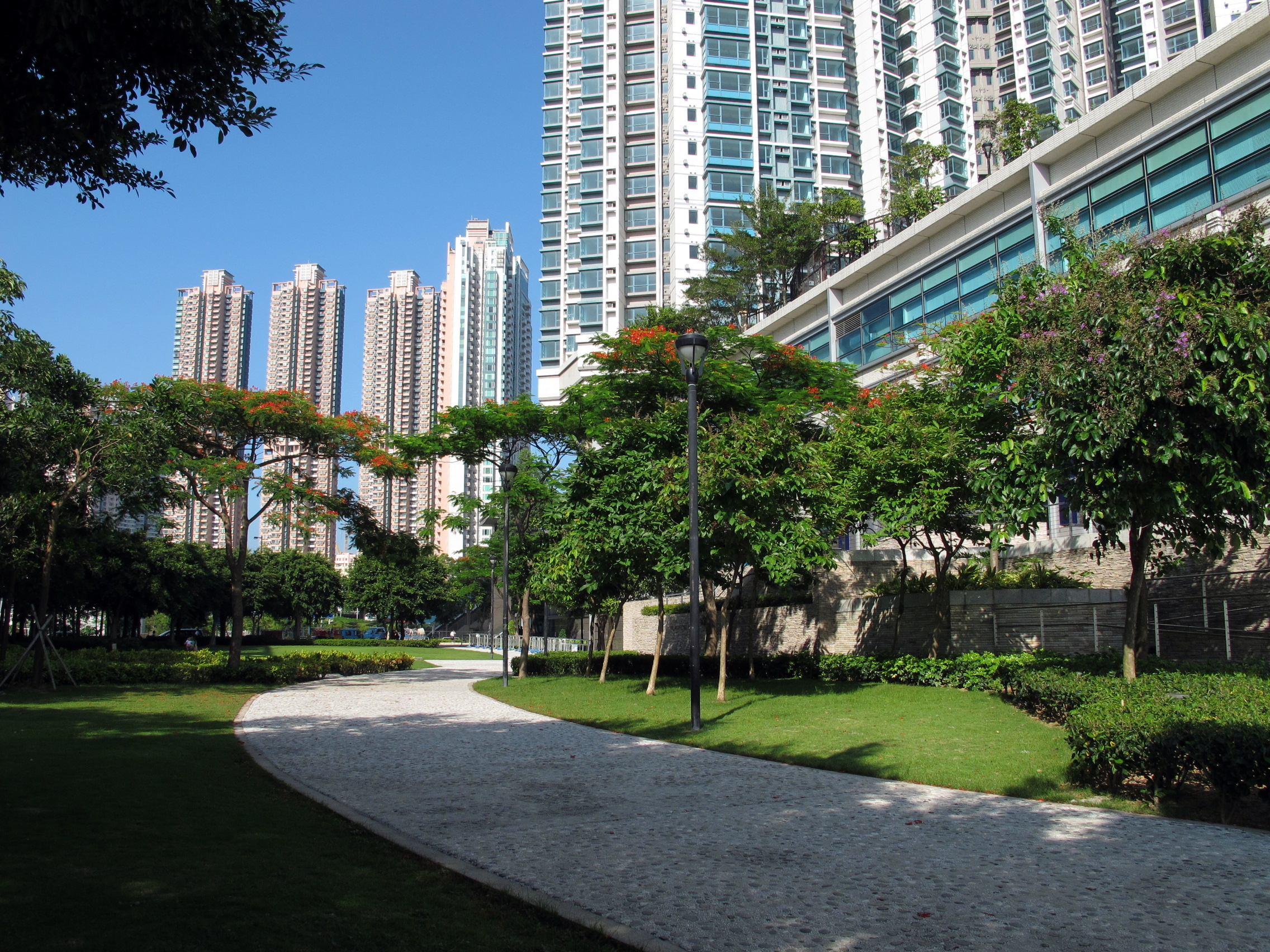 The Long Beach GF Open Space